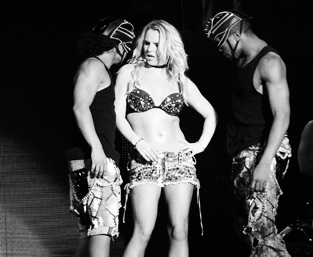 Britney Spears Femme Fatale Tour Live Argentina